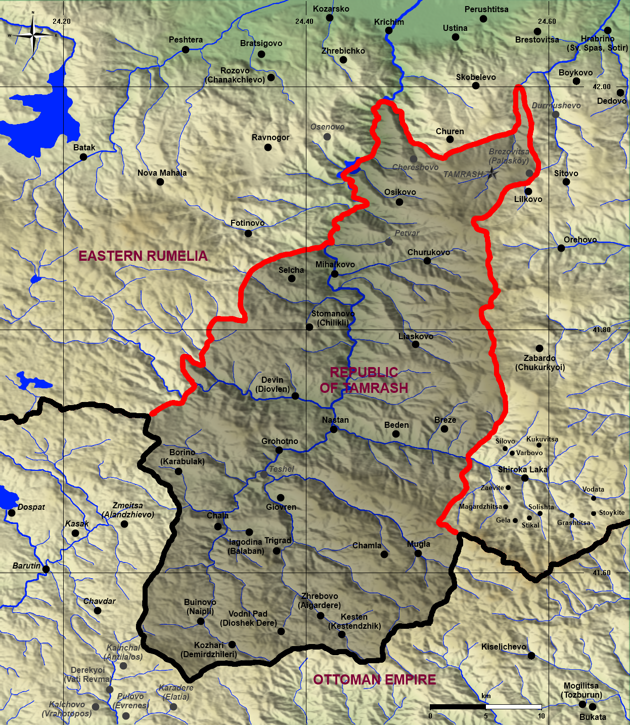 Map of the Republic of Tamrash (1878-1886). Sources: Topography: NASA SRTM Data (published in the public domain)[1] Demarcation line: Rumeli-i şahane haritası 1901/1902 Map of the Ottoman Empire Populated places: Belonging to the republic: Вълчев, Ангел (1973) Тъмраш, София: Издателство на Отечествения фронт, p. 342 OCLC: 749090779. Old names: Simovski, Todor (1999) Atlas Of The Inhabited Places Of The Aegean Macedonia, Ankara: Türk Tarih Kurumu ISBN: 975-16-1103-2.